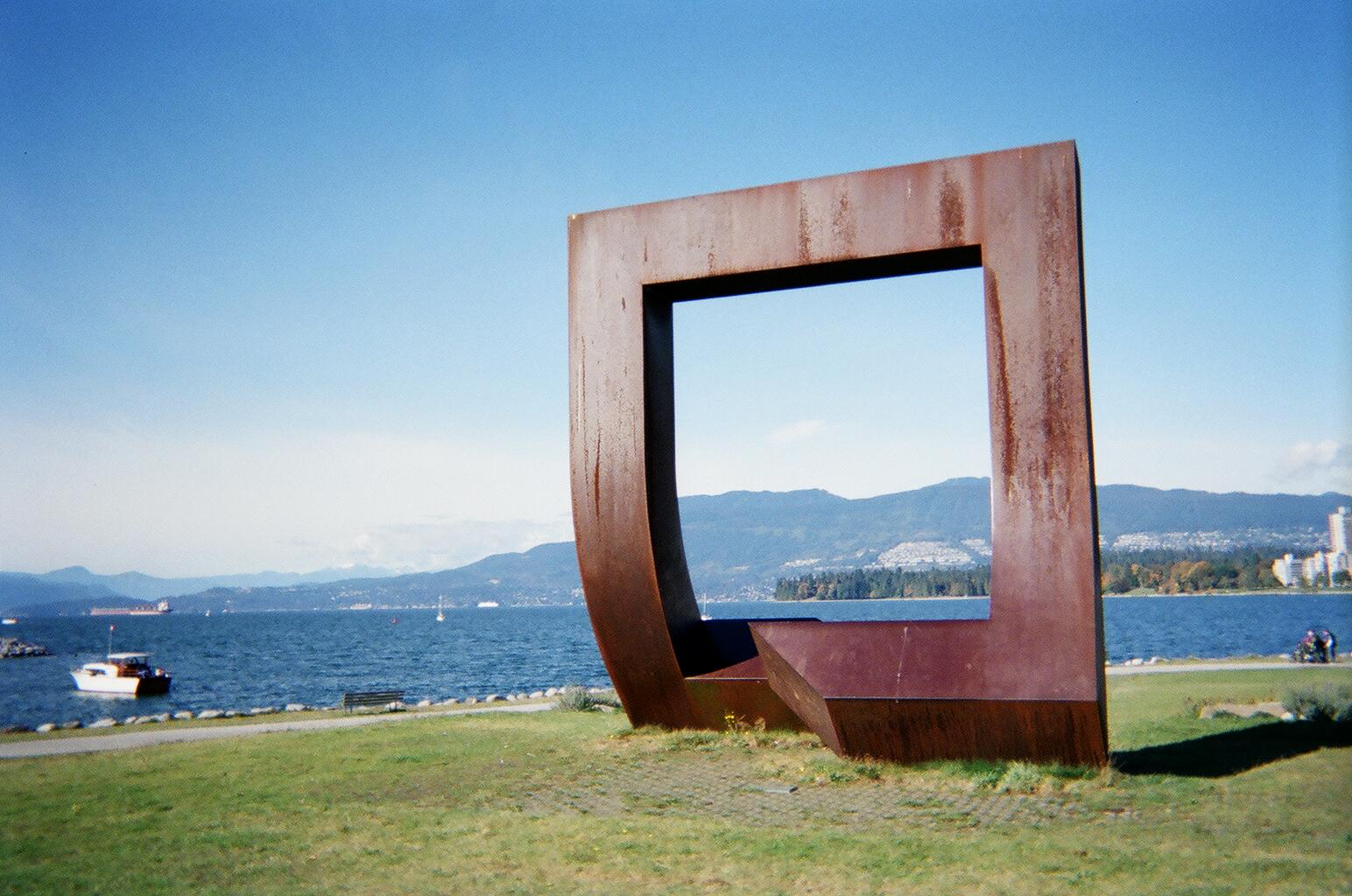 Commemorative statue for Capt. George Vancouver by Vancouver artist Alan Chung Hung. Commissioned by Parks Canada and erected 1980 in Vanier Park, Vancouver, BC. Photo by Eddy Hofbauer